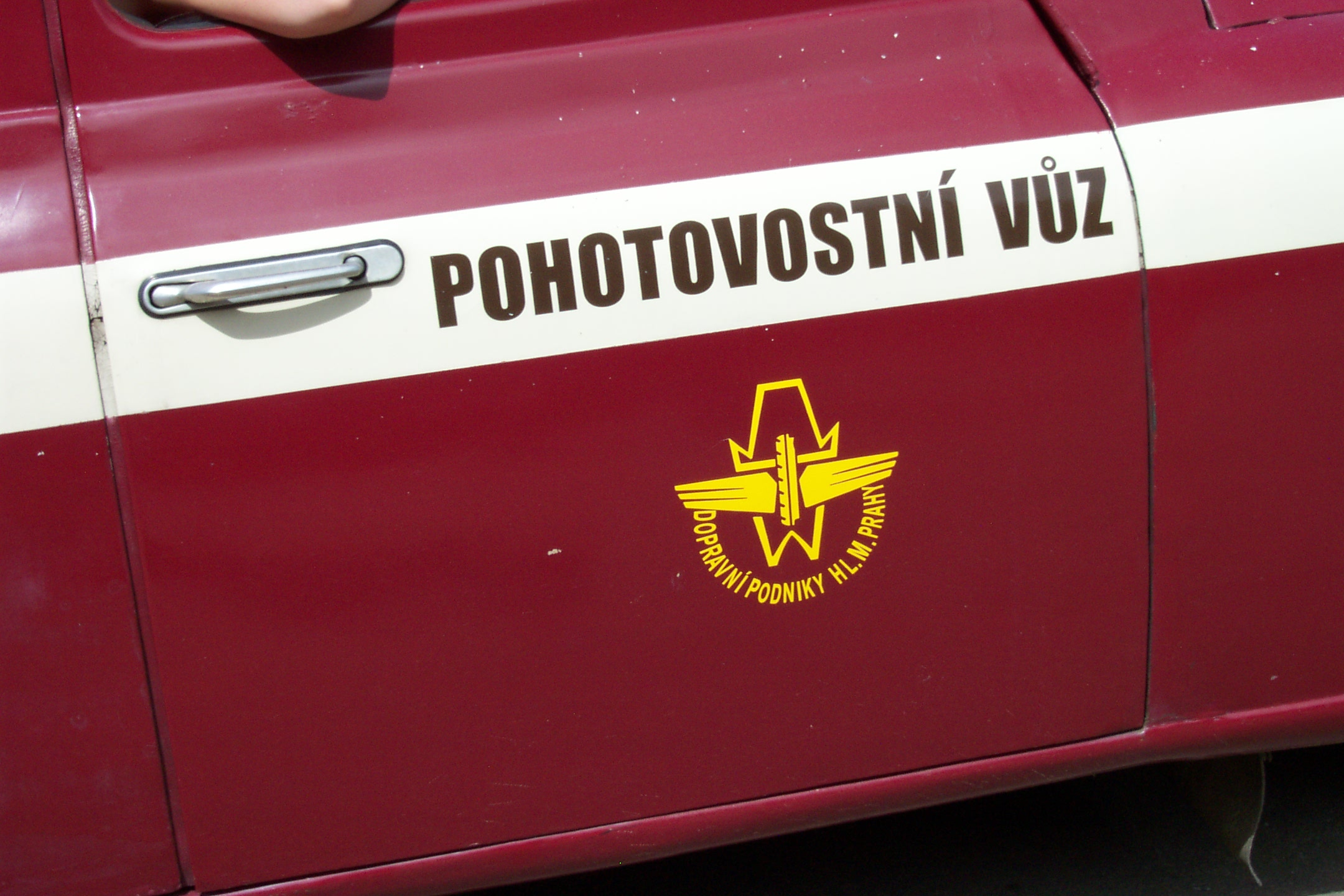 Old logo of the Prague Transport Entepries on the historic emergency vehicle.